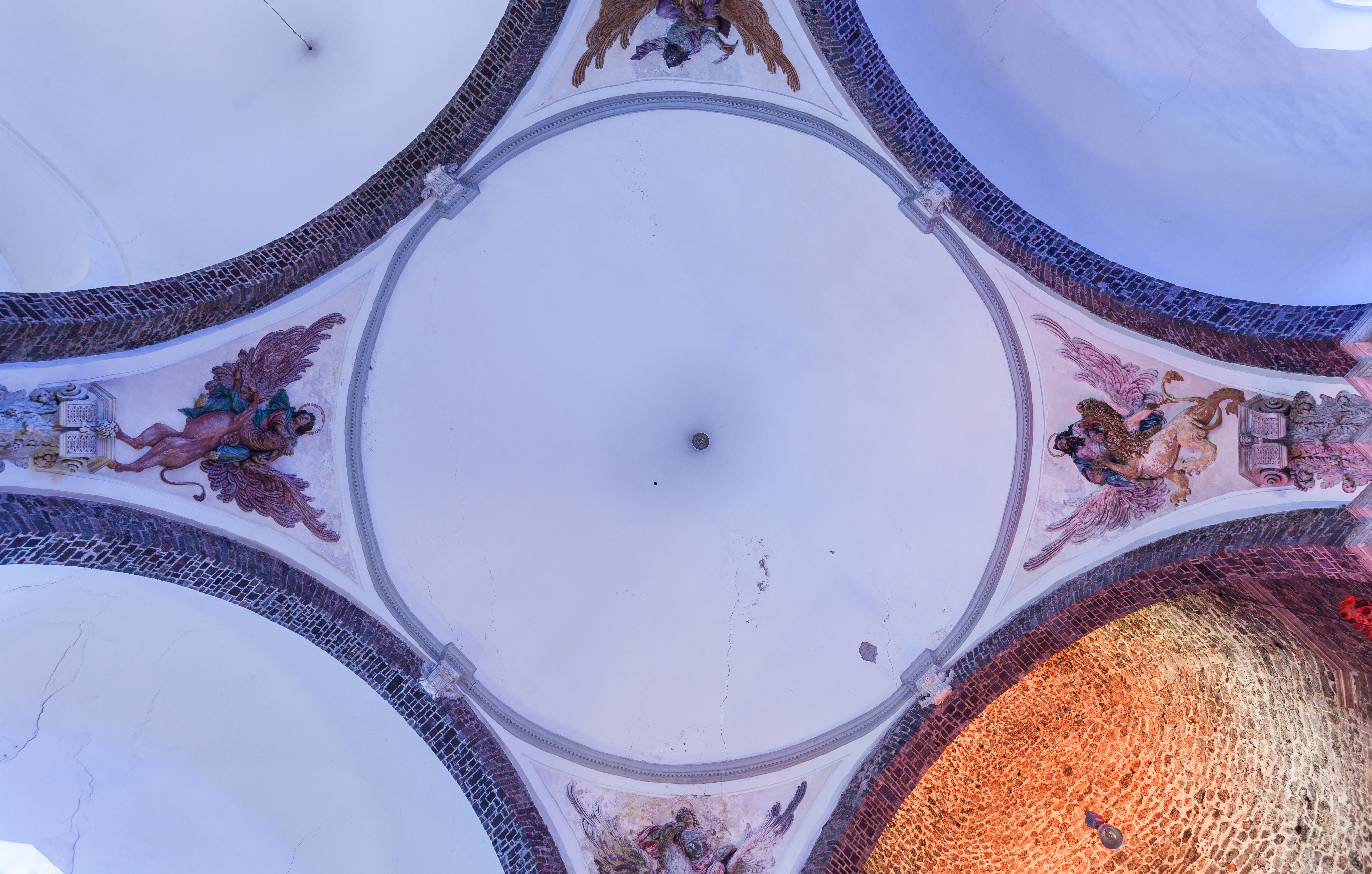 Church of Santiago Tlatelolco, Mexico City, Mexico